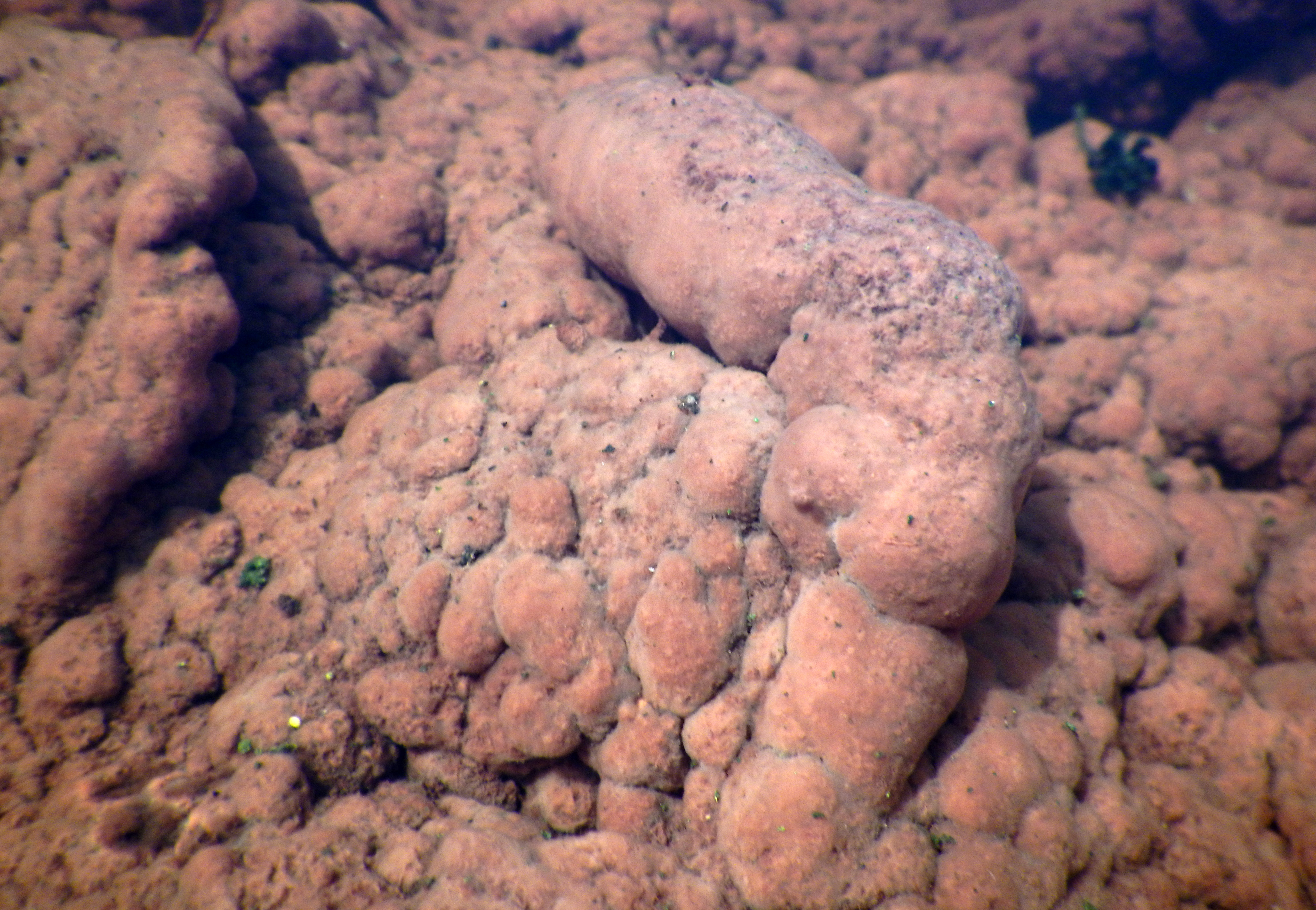 Underwater biofilm (unusually thick and extensive), covering the entire leaf litter in a rather acidic running water (and ferruginous) (2015-04-01) in the french forest : Forêt domaniale de Flines-lès-Mortagne.